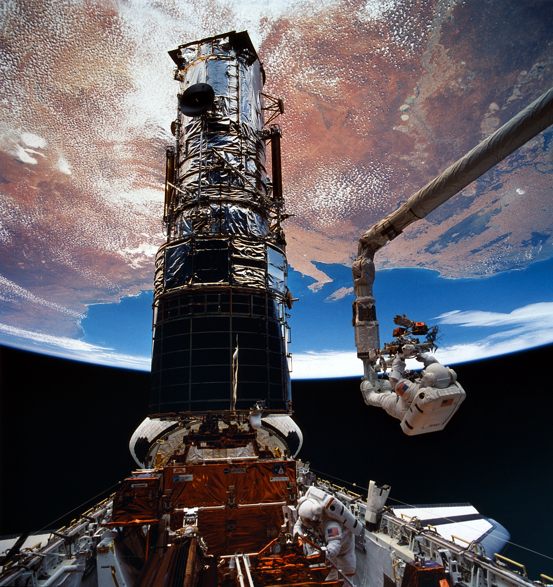 F. Story Musgrave on the RMS during the fifth spacewalk of mission STS-61.